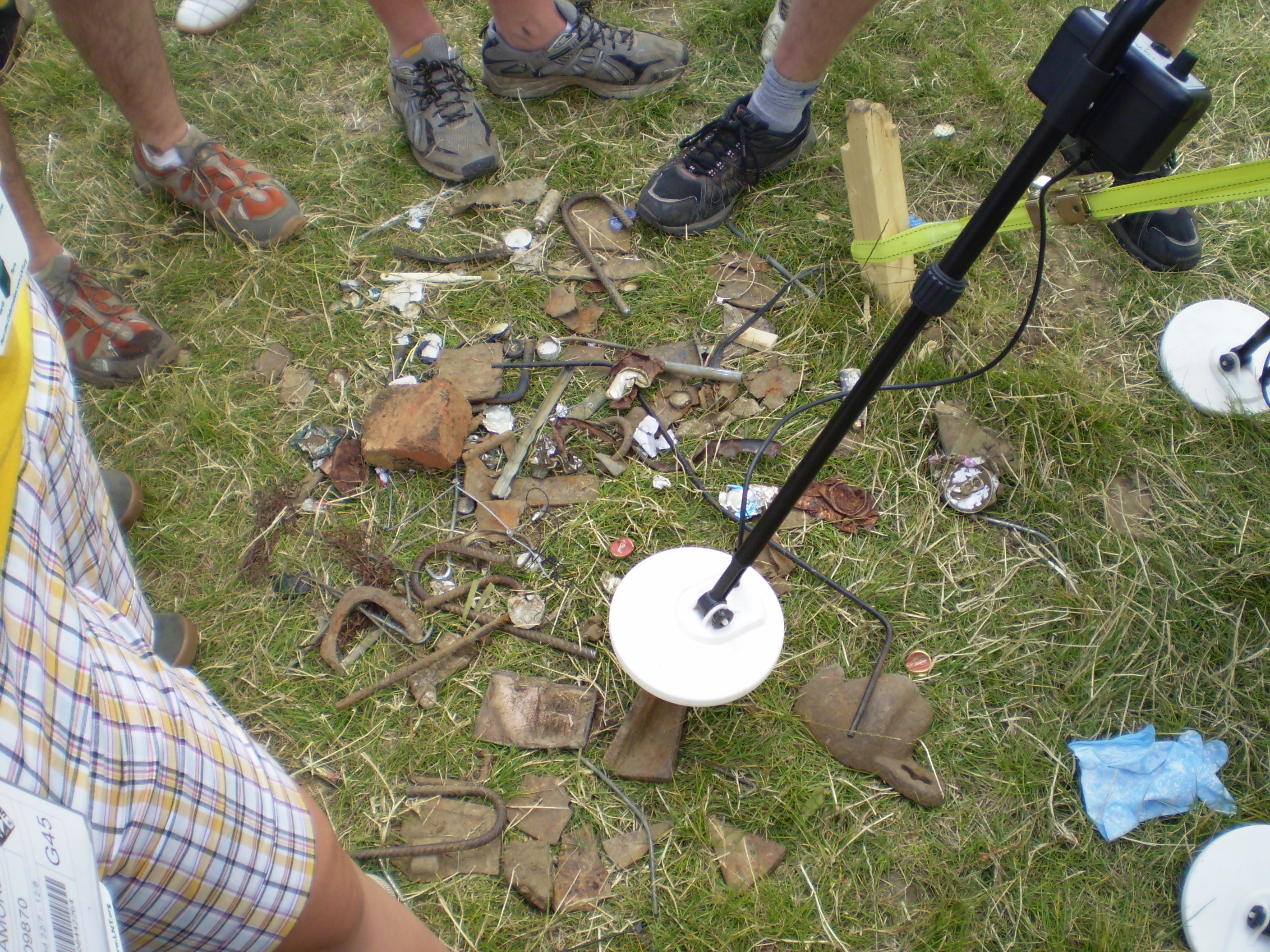 Metal detector at the Elements zone (Earth) at the 21st World Scout Jamboree